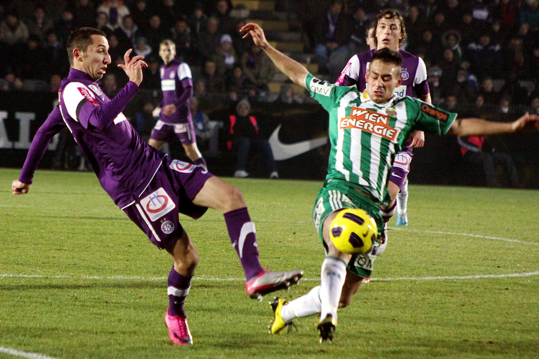 Derby of Vienna - FK Austria Wien vs. SK Rapid Wien 0:1 – Marin Leovac (on the left side) vs. Veli Kavlak.